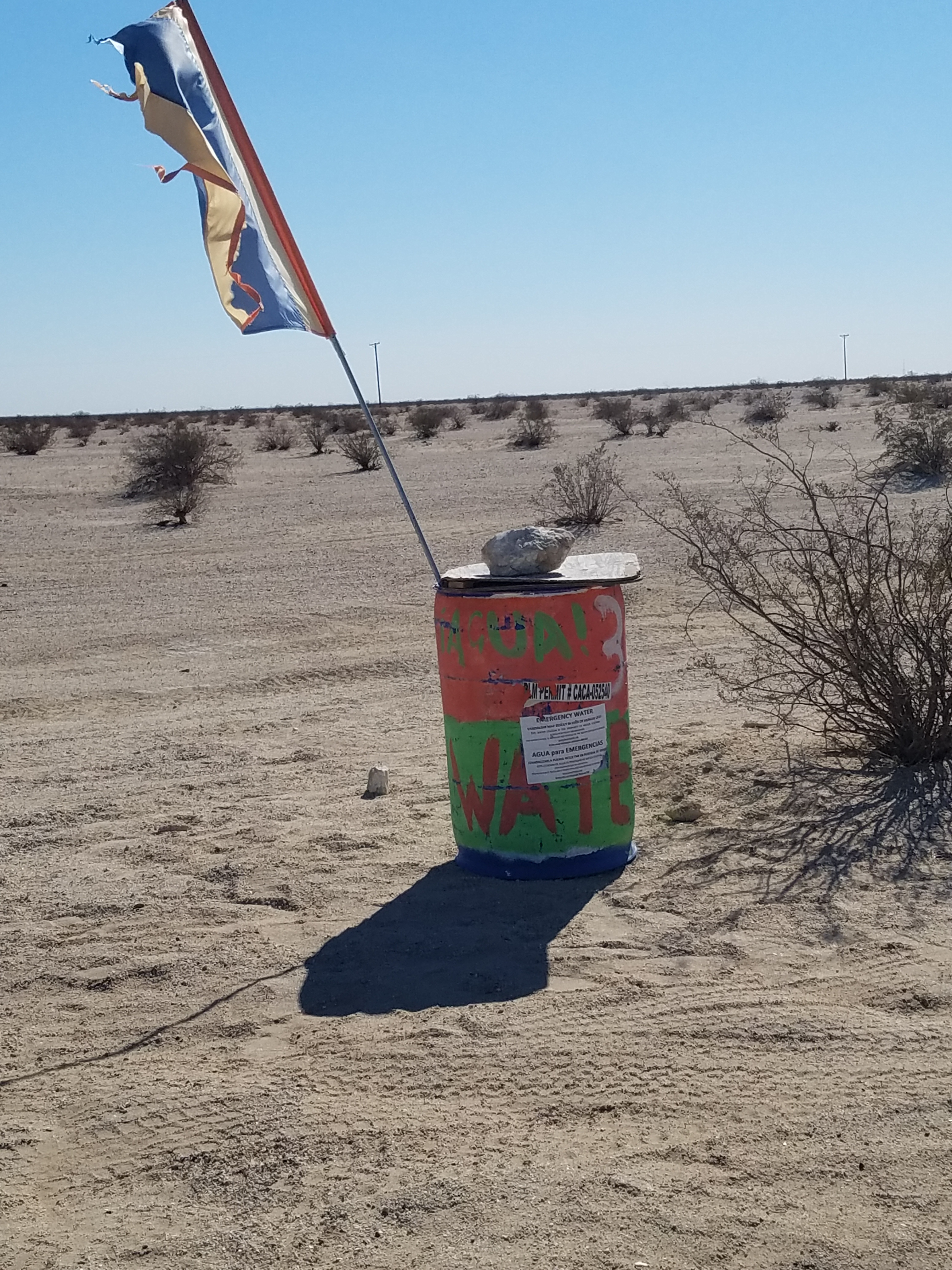 A blue barrel, painted green and orange, with the words "AGUA" and "WATER" in white stenciled on the side. A BLM licensing permit is applied on the side of barrel, missing a couple of number duo to weather damage. A white lid covers the barrel, with the words "WATER" and "AUGA" stenciled in blue. A rock is on top of lid in order to secure it from winds. An orange and blue flag, weather beaten, towers the barrel.